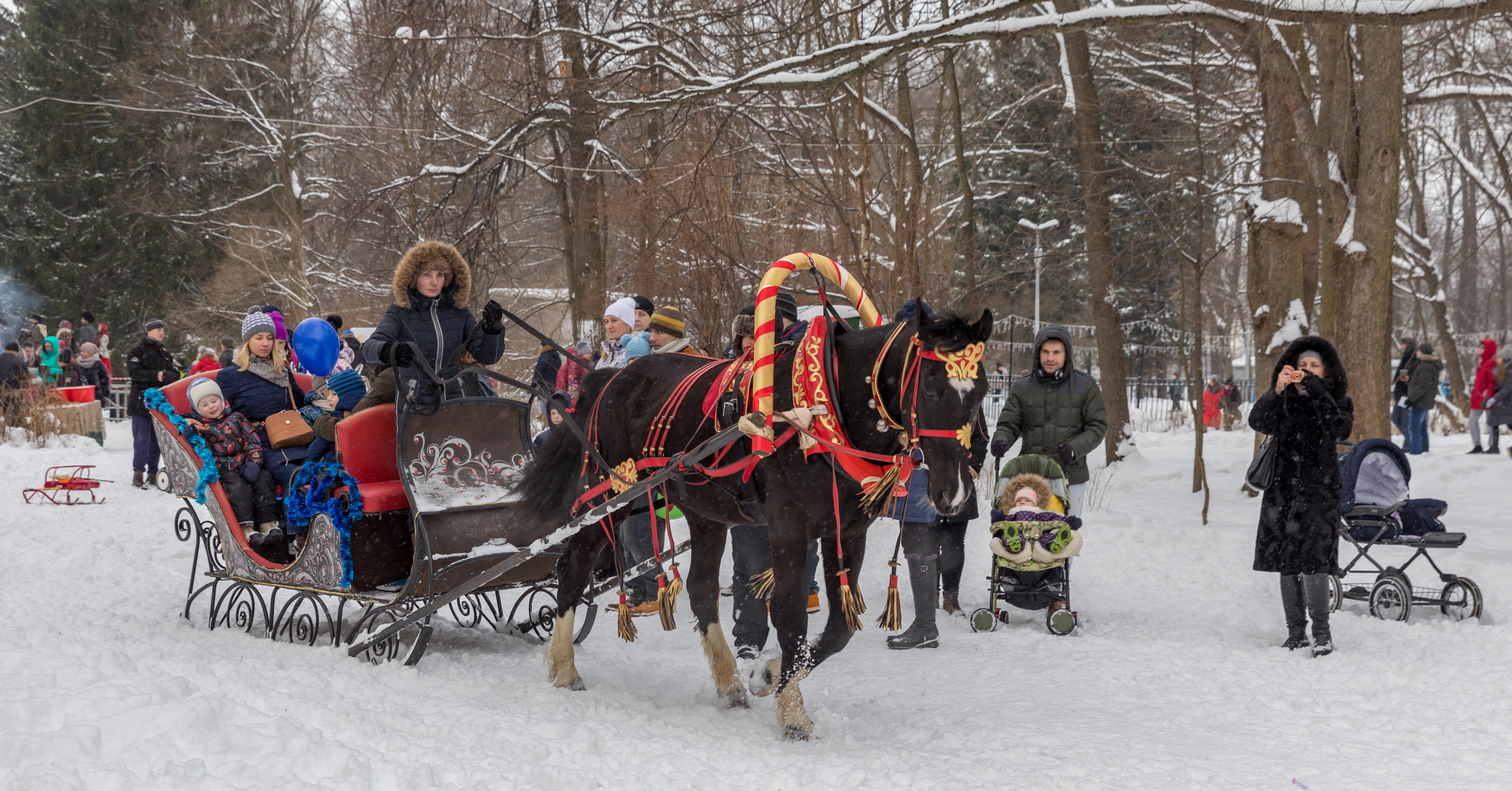 Maslenitsa in Krestovsky Island, Petersburg, Russia